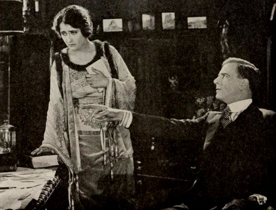 Still from the American adventure film The Savage Woman (1918) with Clara Kimball Young and Milton Sills, on page 30 of the July 27, 1918 Exhibitors Herald.